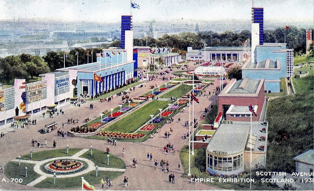 1938 Empire Exhibition , Bellahouston Park, Glasgow showing Scottish Avenue in colour